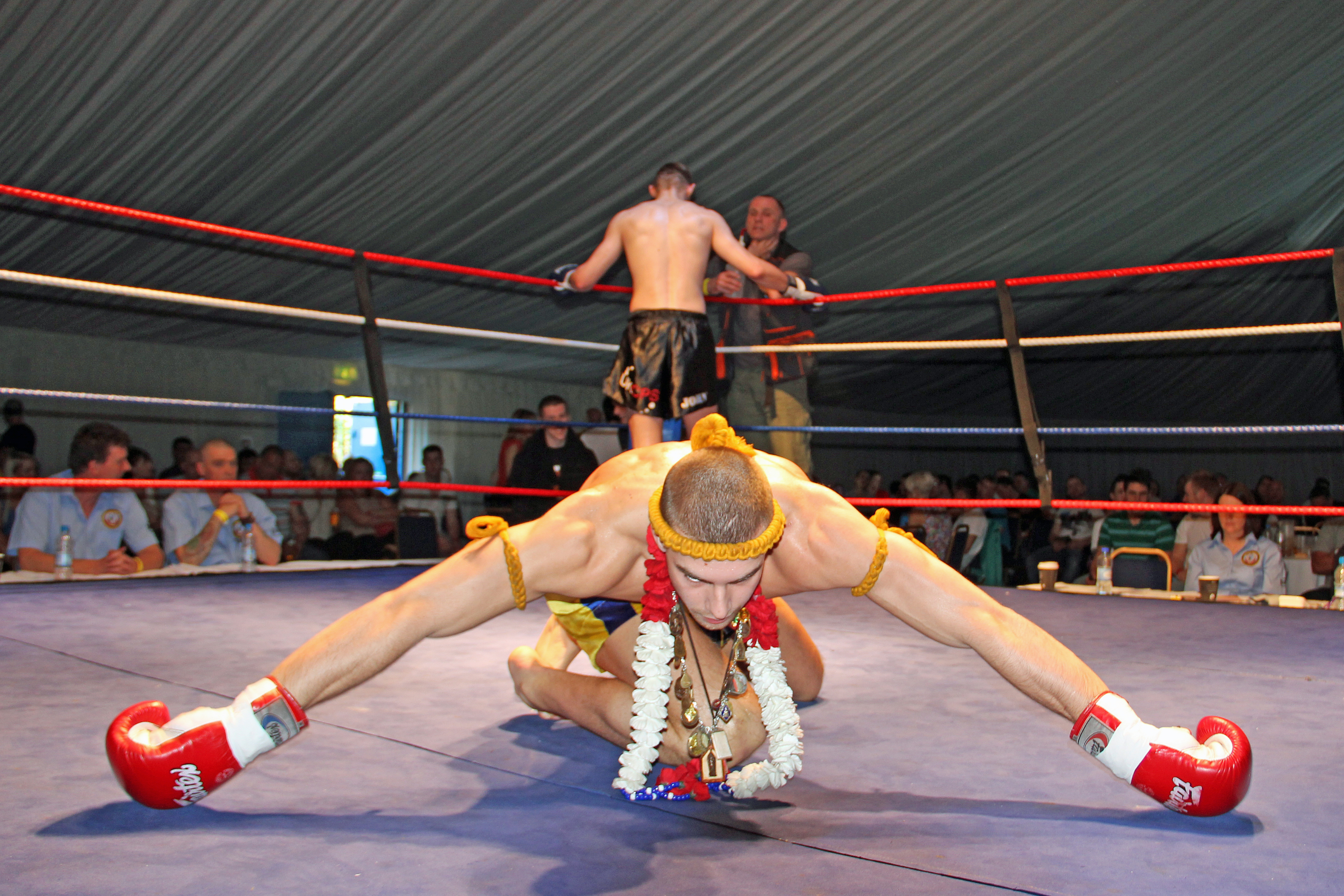 The Wai Kru / Ram Muay